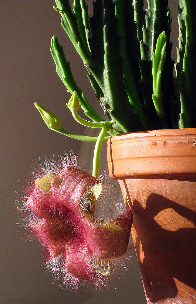 Stapelia grandiflora in a flowerpot